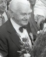 Entrance to the plastic factory in Buzău, Romania